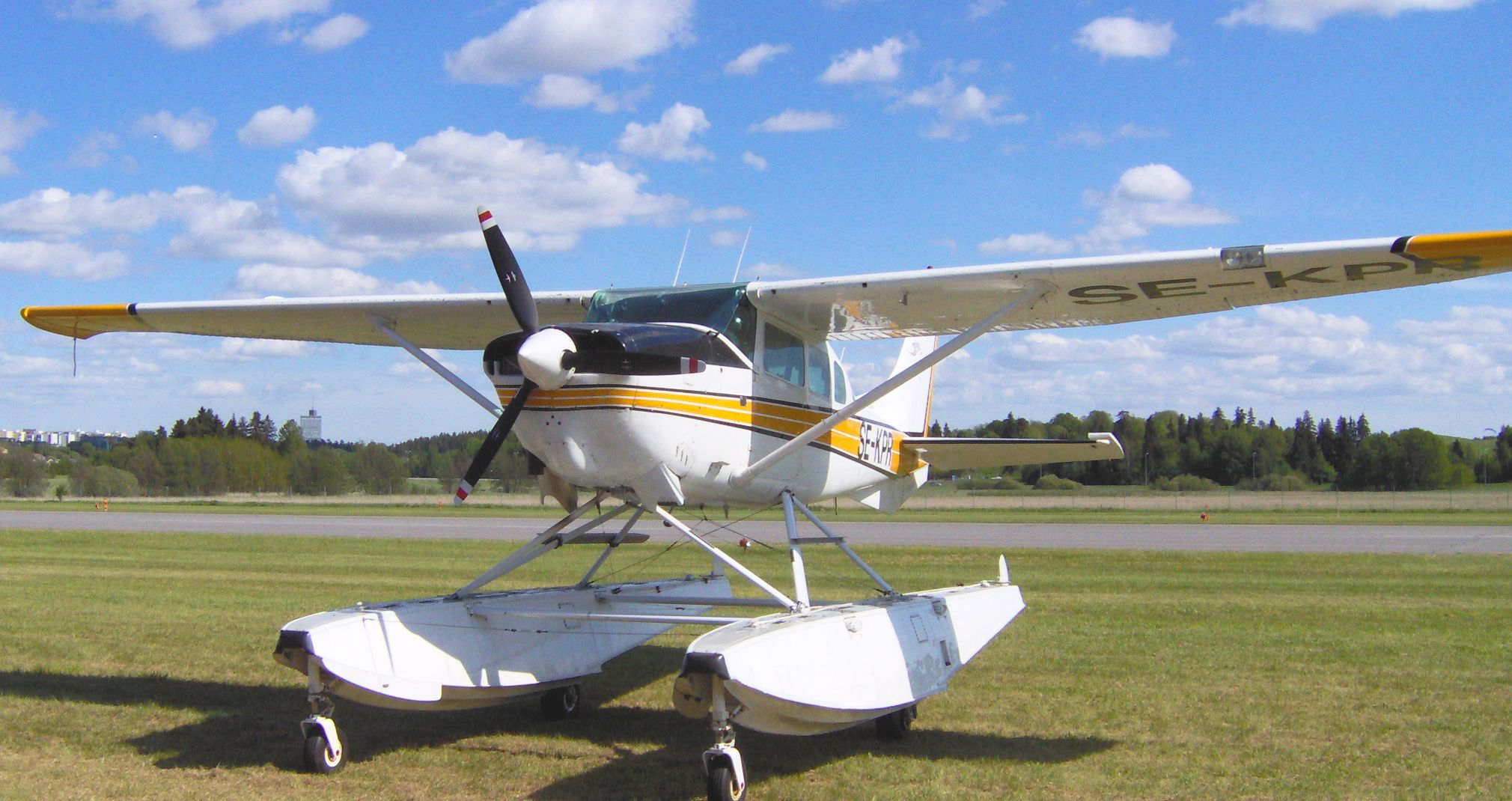 Cessna TU206D Turbo Stationair (SE-KPR) Seaairoplane at Stockholm-Barkarby Airfield, Greater Stockholm, Sweden 2006.